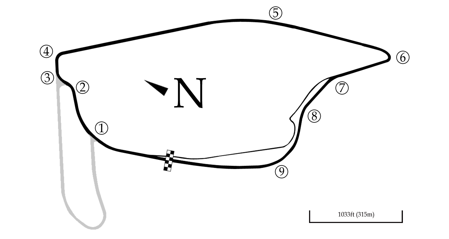 Track map of Pukekohe Park Raceway from 1990-2012